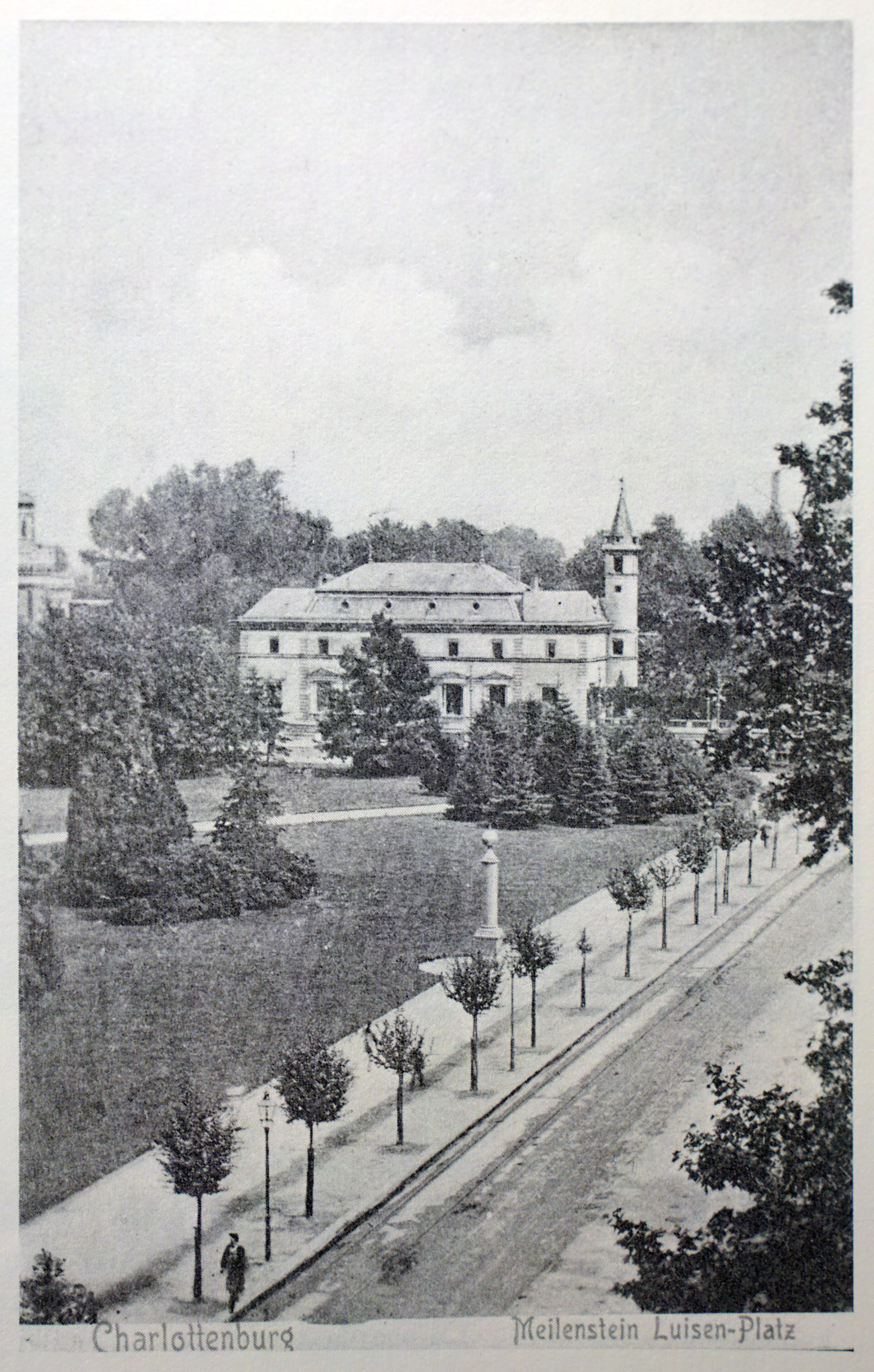 View of Luisenplatz, Berlin-Charlottenburg with the Milestone, around 1900